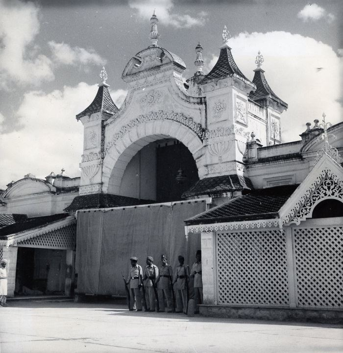 Black and white image of soldiers of the Nizam's Sarf-i-Khas army guarding the Purdah gate of the King Kothi palace, Hyderabad